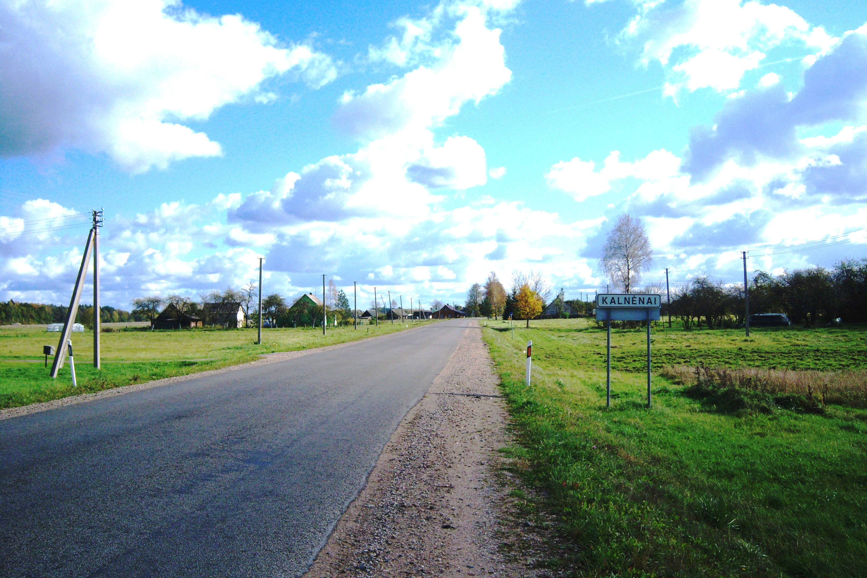 Kalnėnai, Jonava District, Lithuania